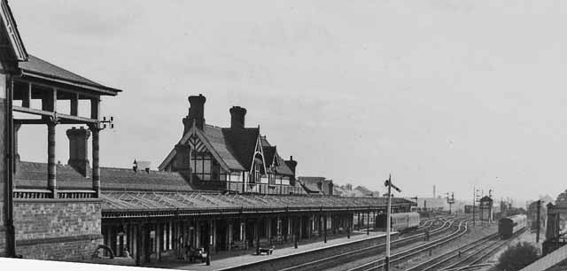 Burton-on-Trent Station. View SW, towards Leicester Junction, Birmingham etc.; ex-Midland, Derby etc. - Birmingham etc., main trunk line, junction of lines from Stoke-on-Trent via Tutbury (closed 1966) and of the secondary main ('Ivanhoe') line to Leicester which although it lost its passenger service in 1964 has survived and this may well be restored.